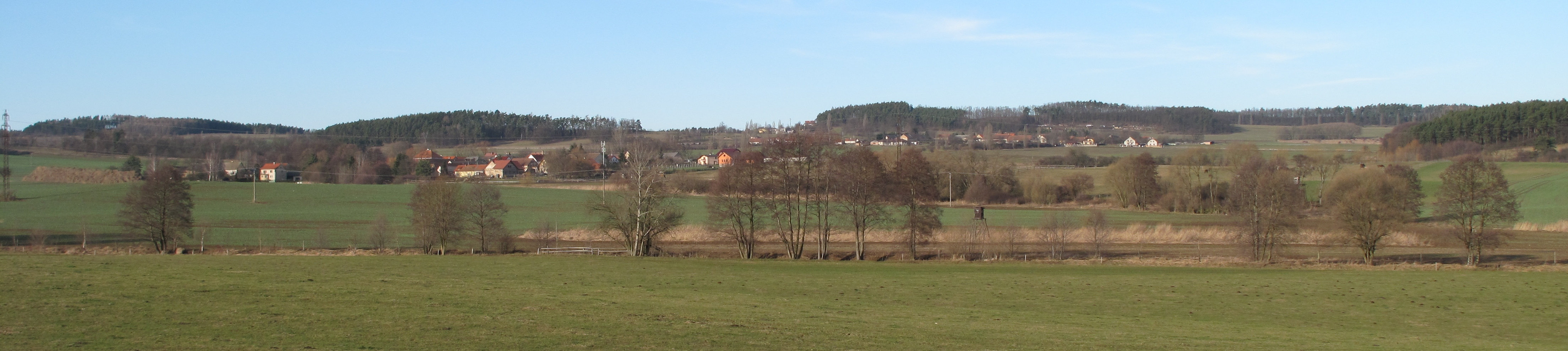 Vegetation around Meredský potok (stream) up from Velkých chotilský rybník (pond), Příbram District, Czech Republic.